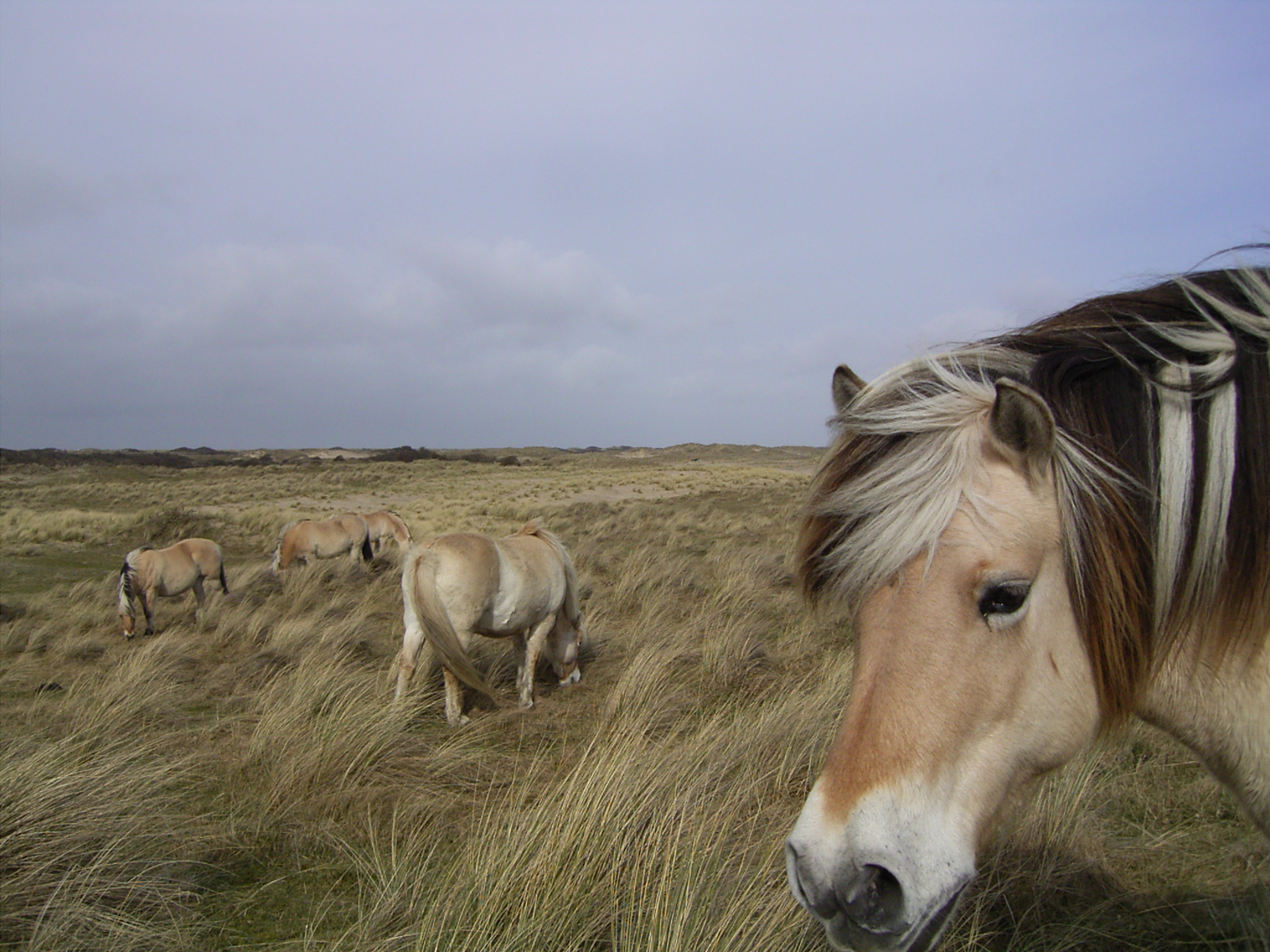 This photo shows some horses in nature area solleveld